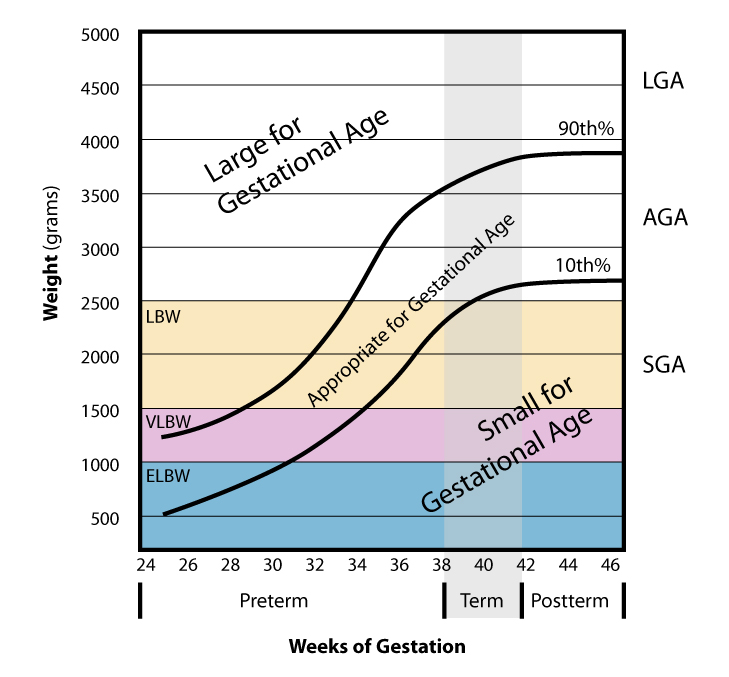 Gestational age and birth weight of infants born at 24 to 46 weeks' gestation. Infants are classified as large for gestational age (LGA), appropriate for gestational age (AGA), or small for gestational age (SGA). Another classification which takes in consideration only the weight and not the gestational age, is low body weight (LBW), VLBW and ELBW.